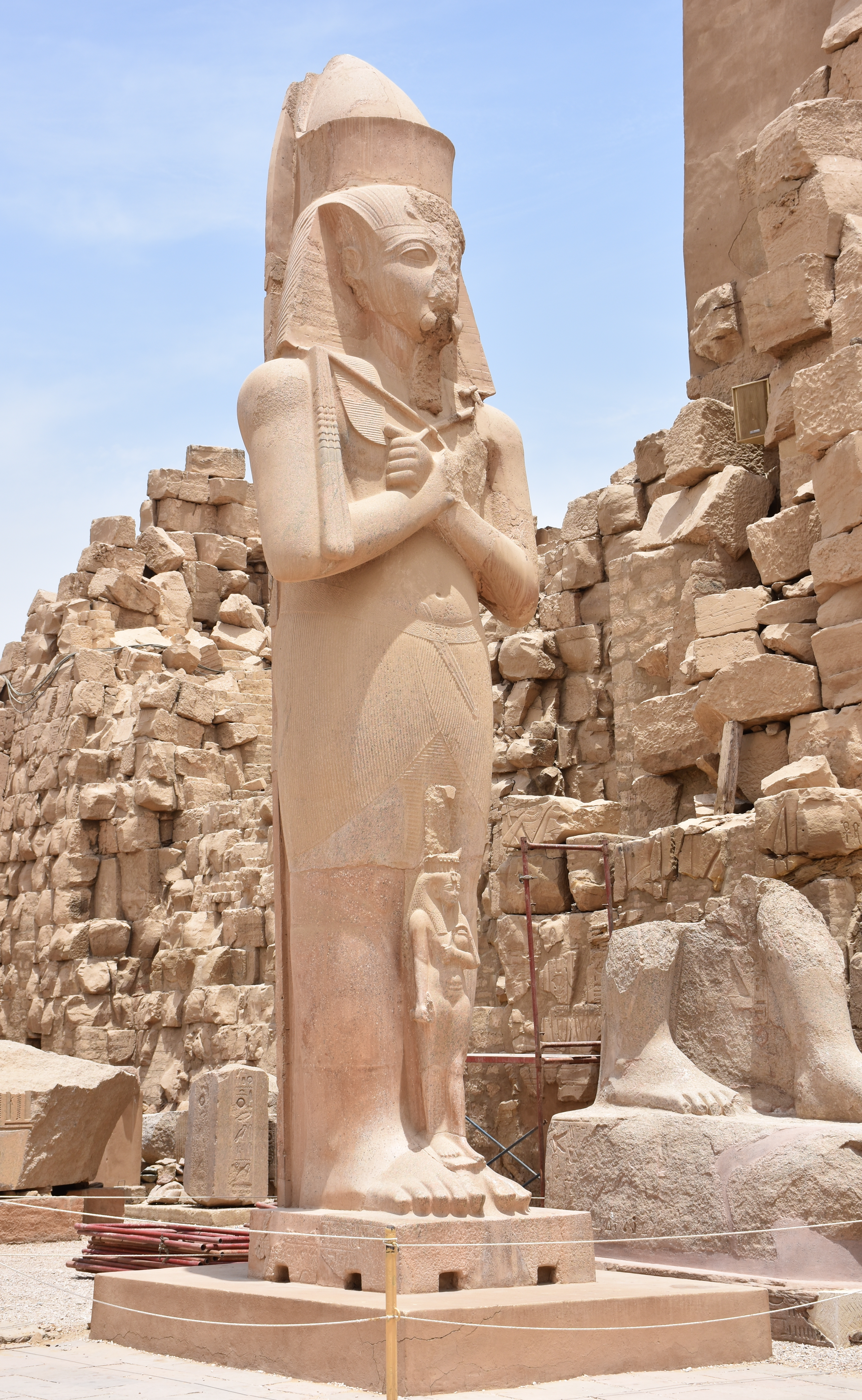 Statue of Ramesses II in Karnak Temple in Luxor, Egypt